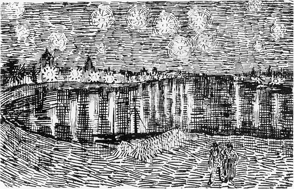 Drawing of Starry Night over the (in a letter to Theo)